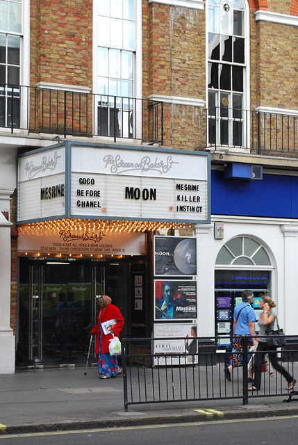 The Screen on Baker Street A small cinema on Baker Street. I had to visit London today on Geograph business and I felt the urge to walk down Baker Street having grown up in the 70's when Gerry Rafferty's hit single 'Baker Street' was hitting the charts at just about the same time as I started taking an interest in pop music. Back then Baker Street to me was a place i'd probably never visit, but a sense of place was created in my imagination through listening to the lyrics and the music. Funny what draws us to go to the places we wouldn't normally visit in our daily lives and yet which to others are part of their everyday experiences. I'm glad i finally got the chance to spend a little time here.